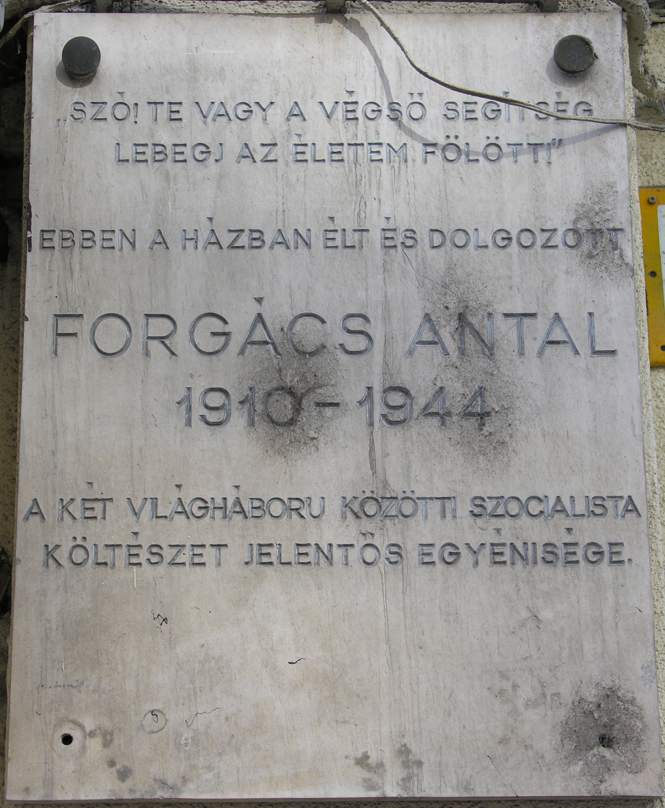 Antal Forgács commemorative plaque in Budapest District XIII, Visegrádi Street No 3